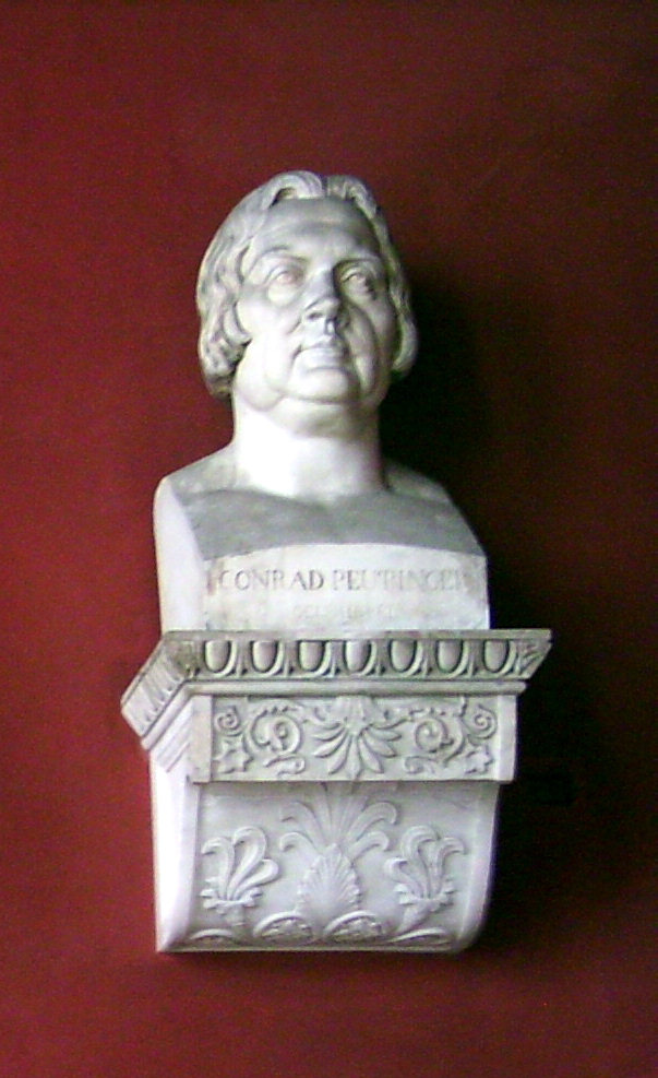 Bust of Conrad Peutinger at Ruhmeshalle ("Hall of fame"), München, Germany. Picture taken by myself: Dominik Hundhammer, München, 27 March 2006.